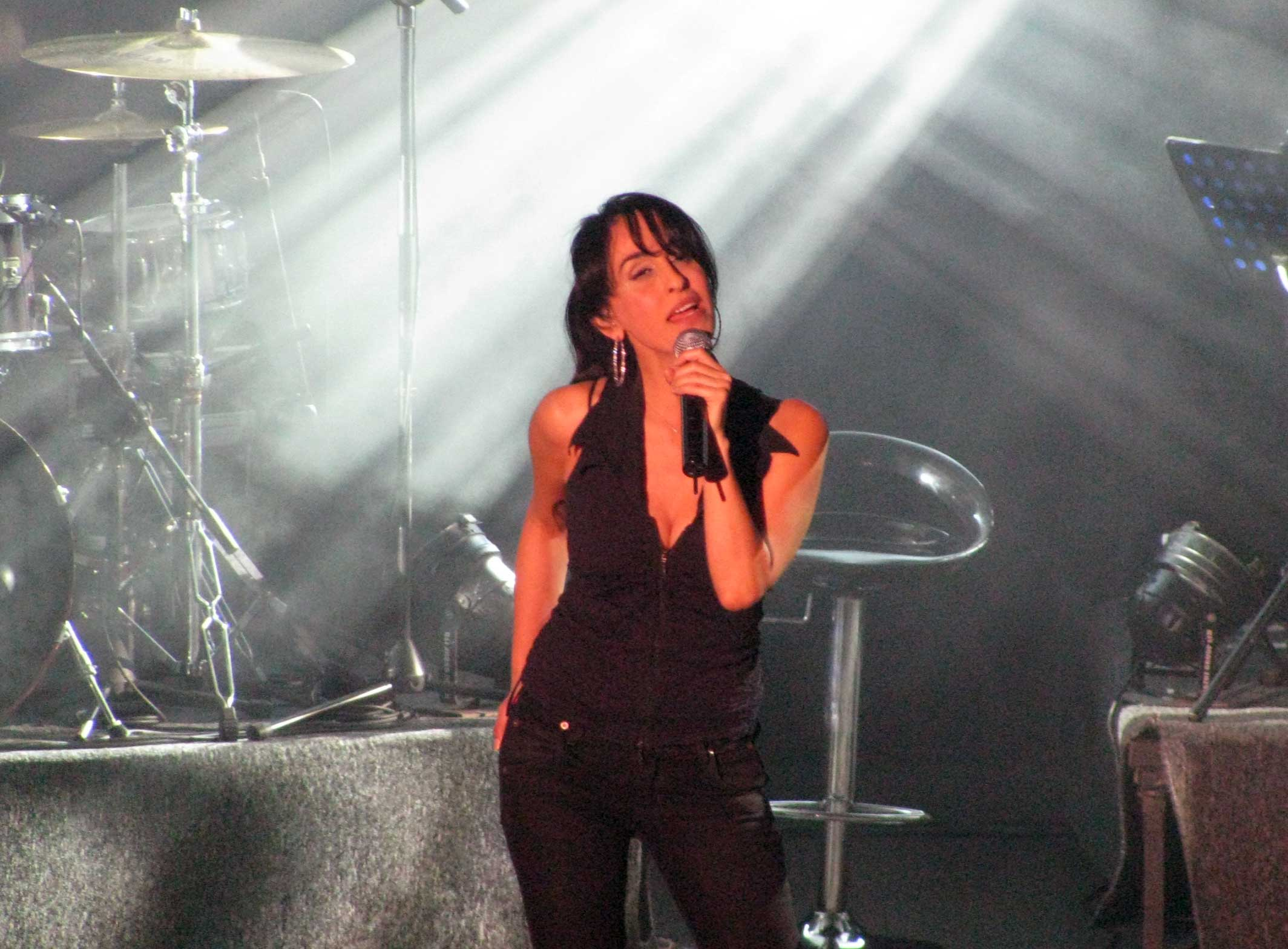 Israeli singer, Rita Yahan Farouz, during her concrete at Jerusalem